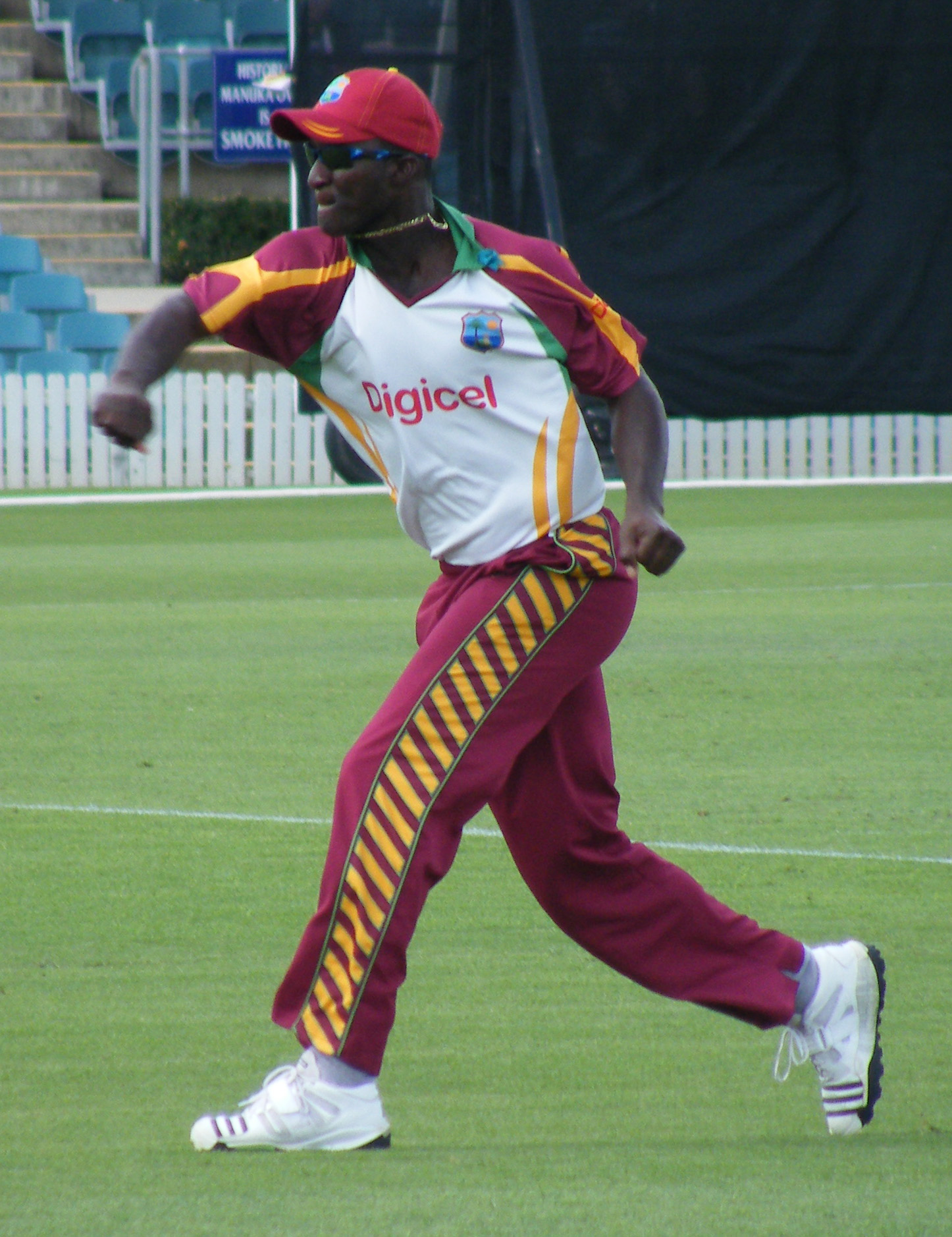 Darren Sammy at the Prime Ministers 11 Cricket match in Canberra 2010.